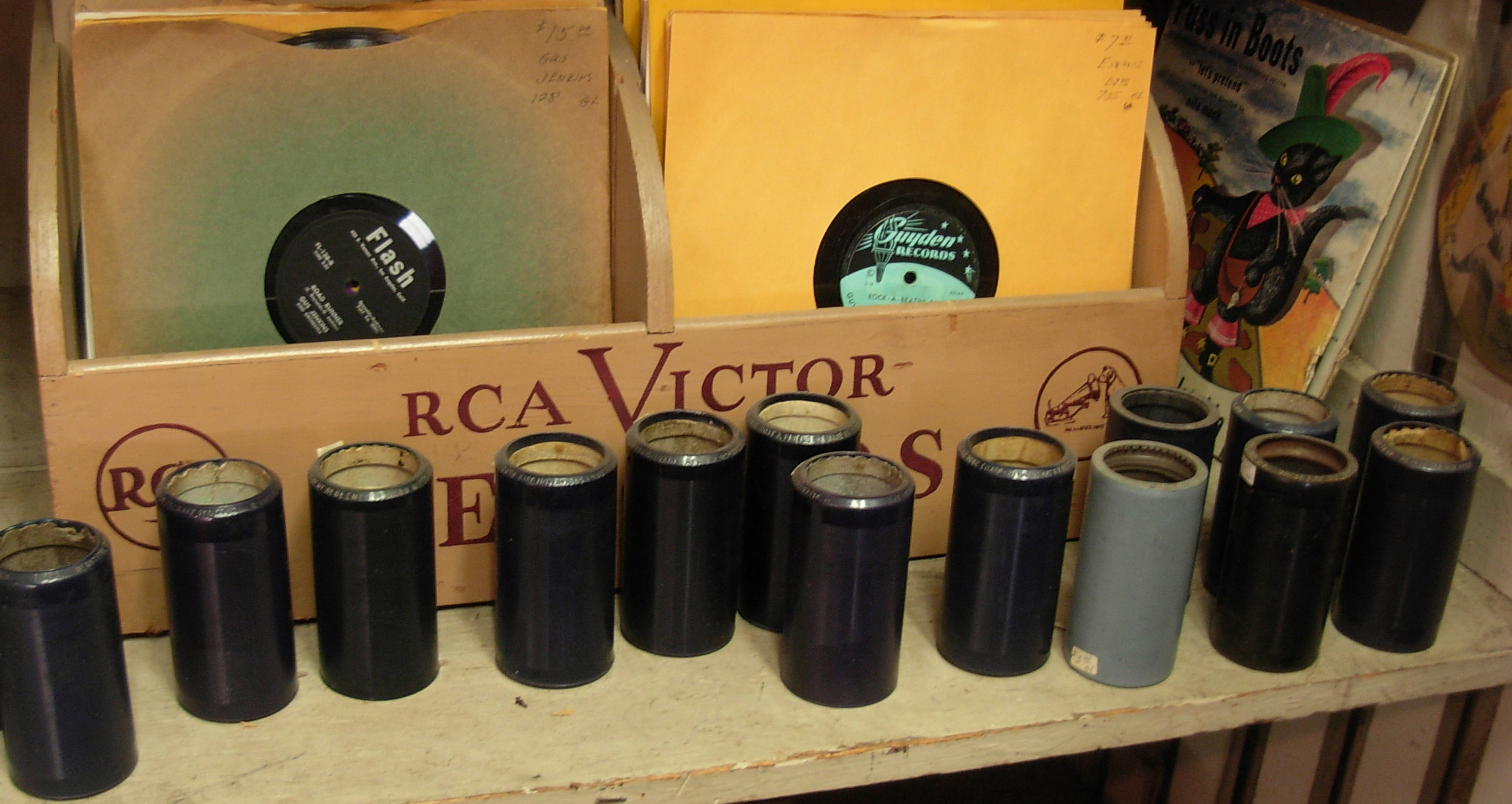 Phonograph cylinders (in front), disc records in back. One record album ("Puss in Boots") is visible at right.